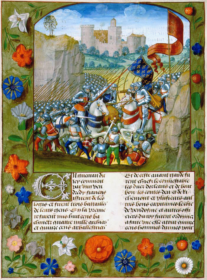 The Battle of Agincourt from Enguerrand de Monstrelet, Chronique de France. French. Manuscript op parchment, 266 ff., 405 x 300 mm. Brugge(?), c.1495